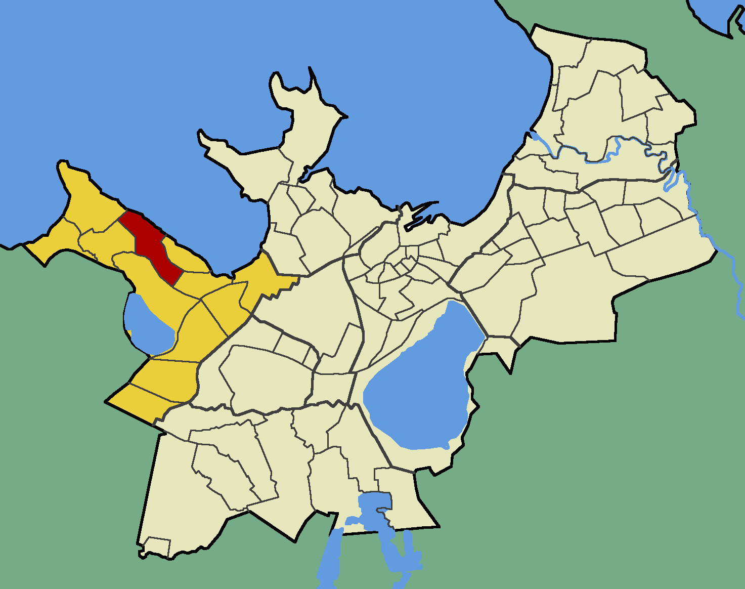 Map of Tallinn (Estonia) with borders of the quarters, Haabersti district and Õismäe quarter emphasised